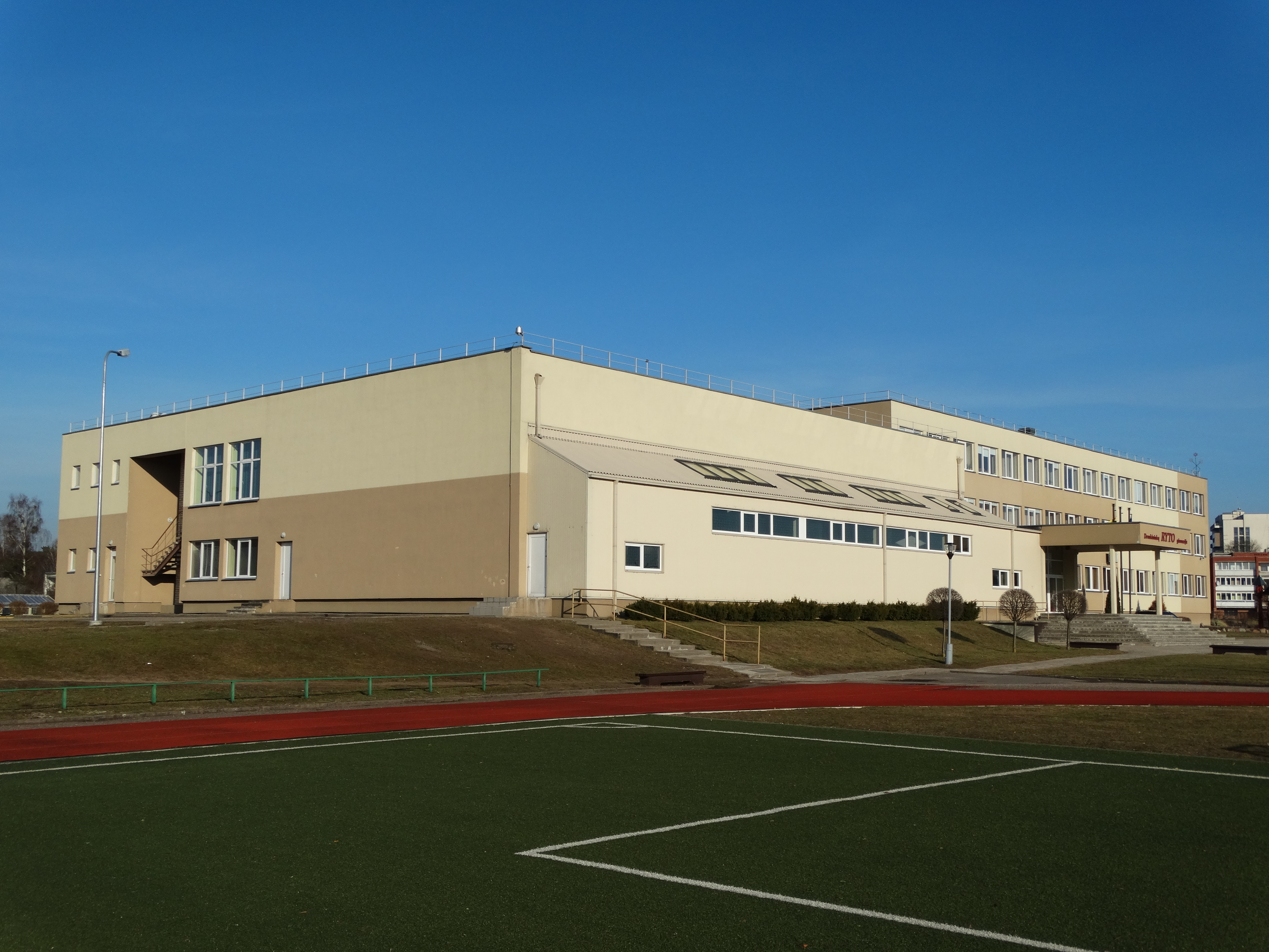 Rytas Gymnasium, Druskininkai, Lithuania